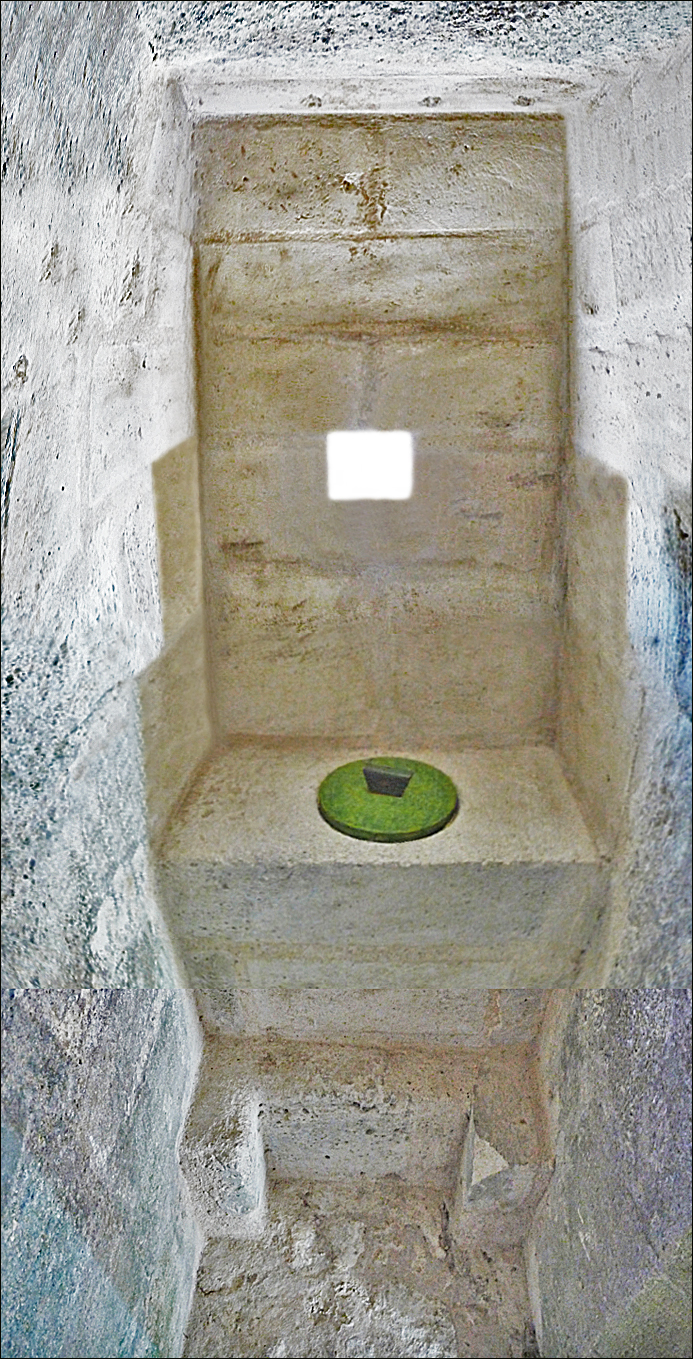 Interior of the latrines in the Tower of Honor of Lesparre.